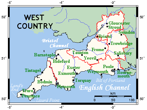 A map of England's West Country. This map's source is here, with the uploader's modifications, and the GMT homepage says that the tools are released under the GNU General Public License.